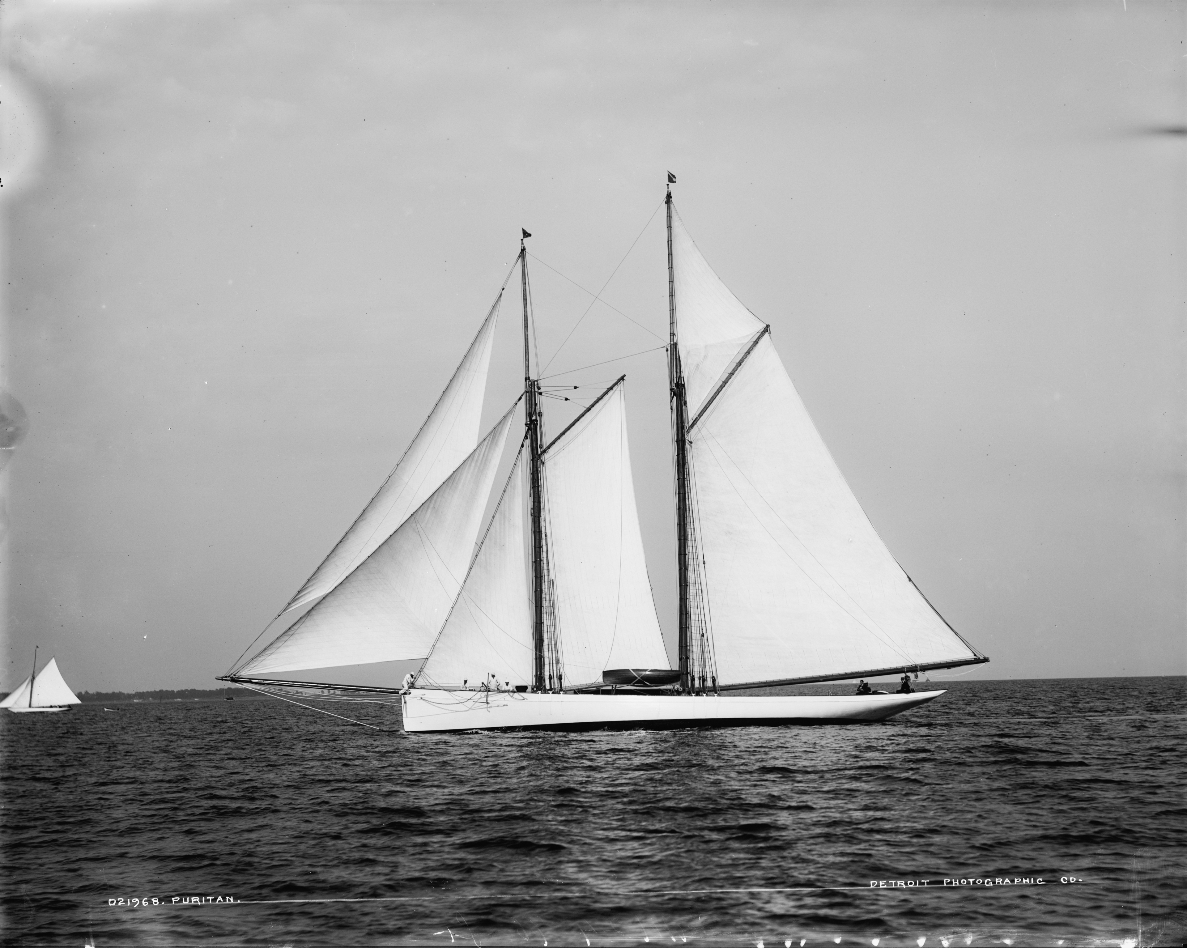 John Malcolm Forbes's schooner Puritan (Edward Burgess design, built in 1885 at the George Lawley & Son shipyard, MA). She had previously defended the America's Cup under a sloop rig in 1885.